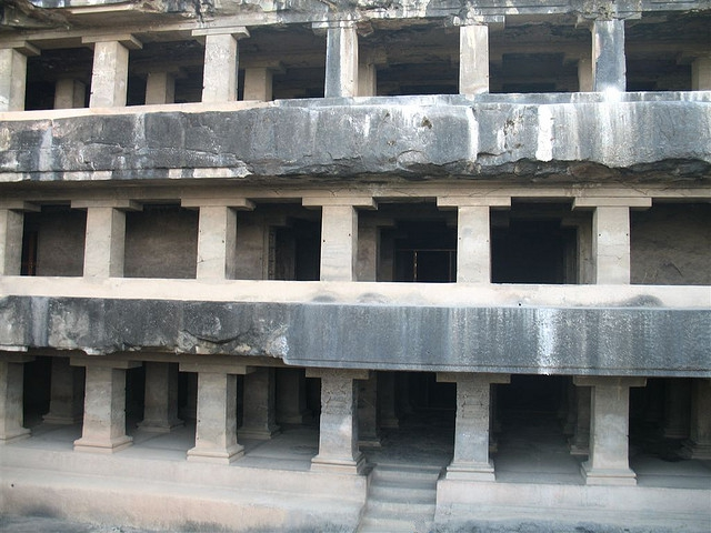 Teen Taal, Ellora Cave 12.